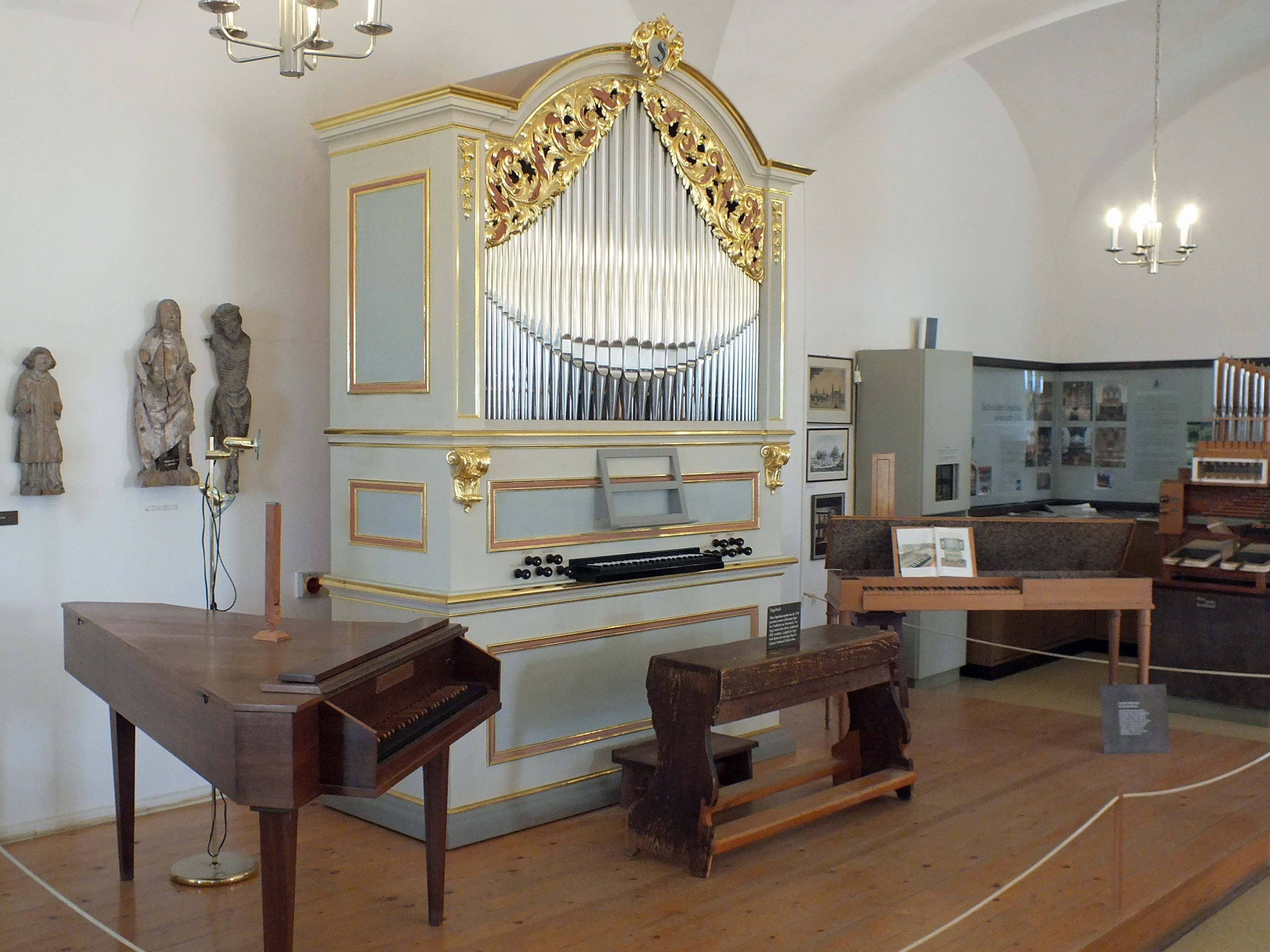 Im Gottfried-Silbermann-Museum Frauenstein